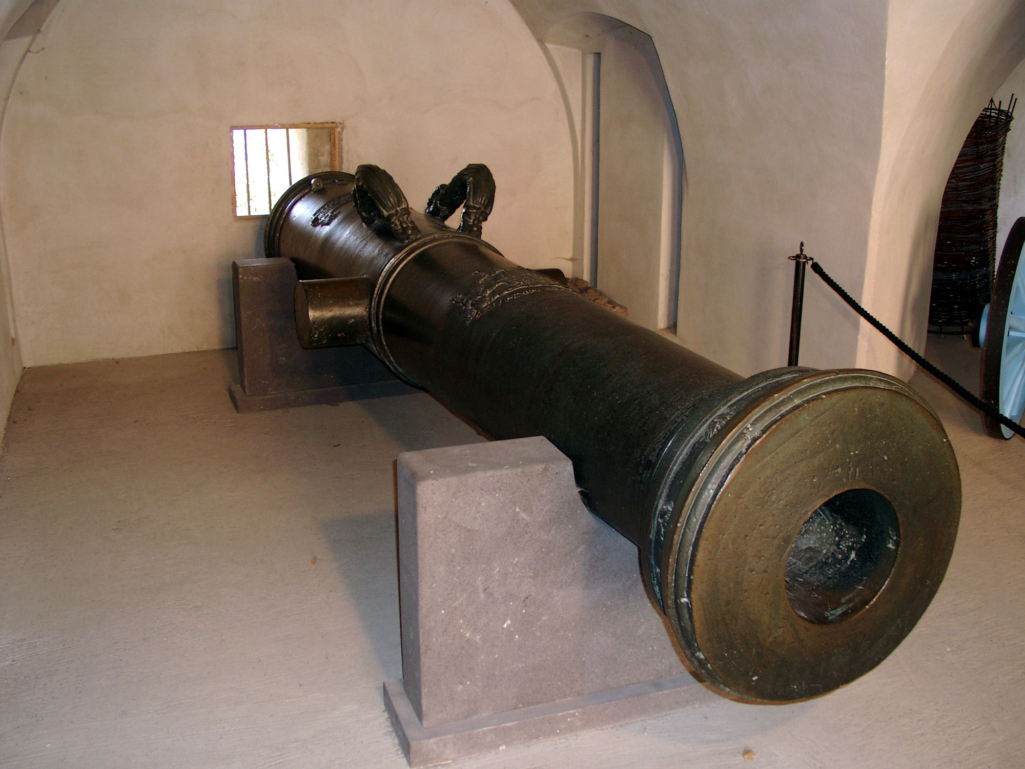 Cannon Greif from 1524, exhibited at Festung Ehrenbreitstein in Koblenz